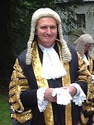 Lord Justice Lloyd Jones (Sir David Lloyd Jones) in his ceremonial dress, in a procession at Llandaff Cathedral in 2013